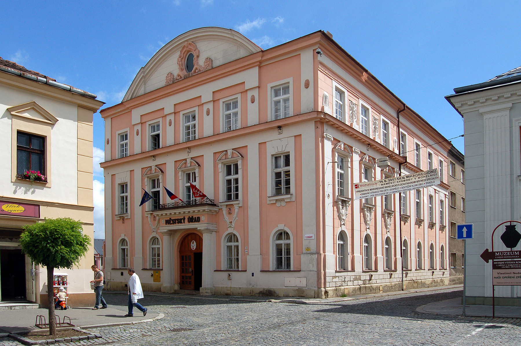 Old Town Hall in NE corner of Freedom Square in Mohelnice, Šumperk District, Czech Republic